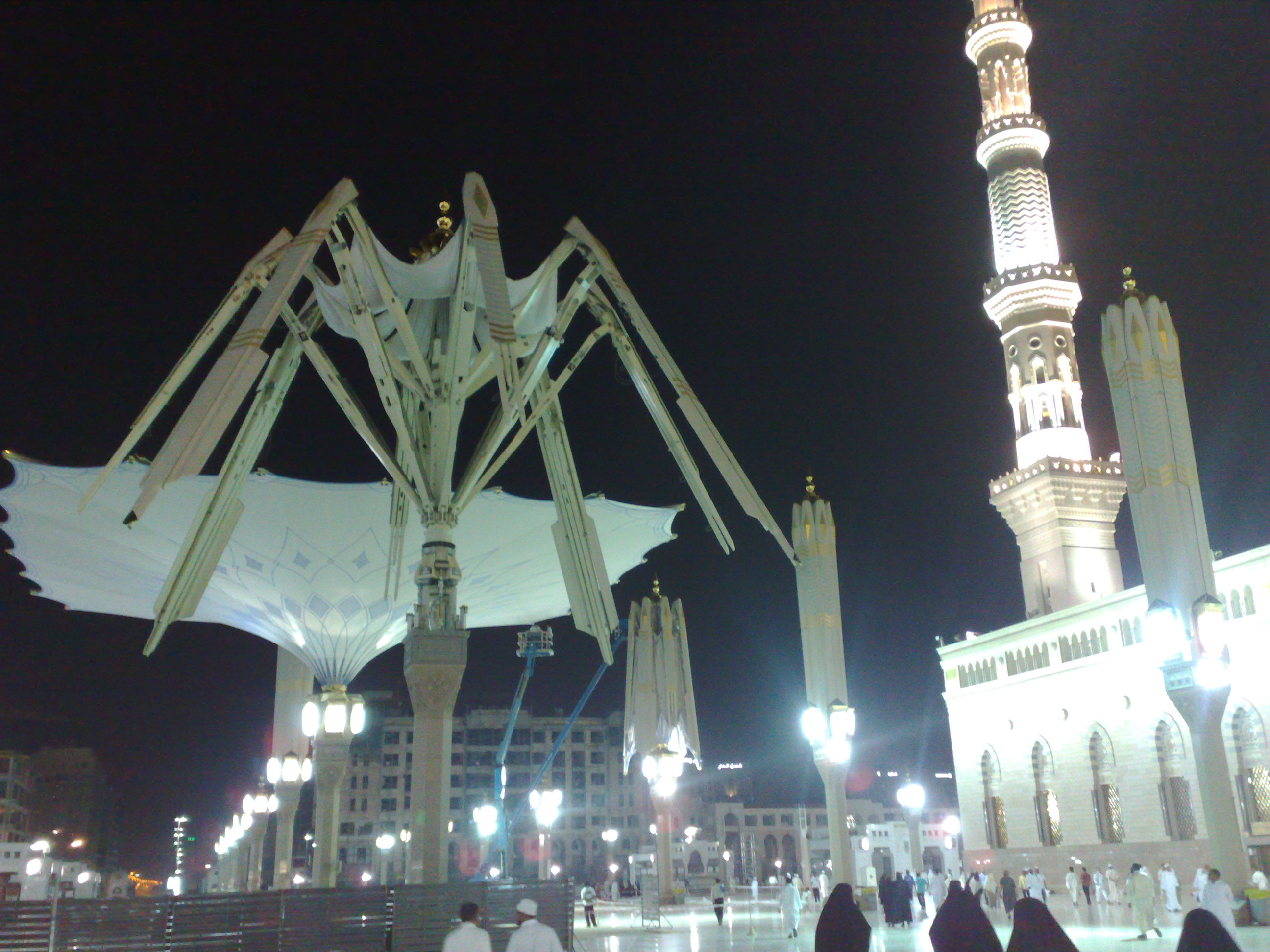 Canopies in the yard of al-Masjid al-Nabawi in Medina, Saudi Arabia